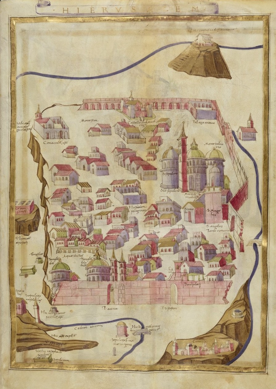 1472 map of Jerusalem by Pietro del Massaio